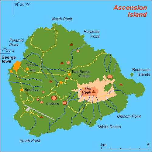 map (rough) of Ascension island, St Helena, own work composed from various mapreferences